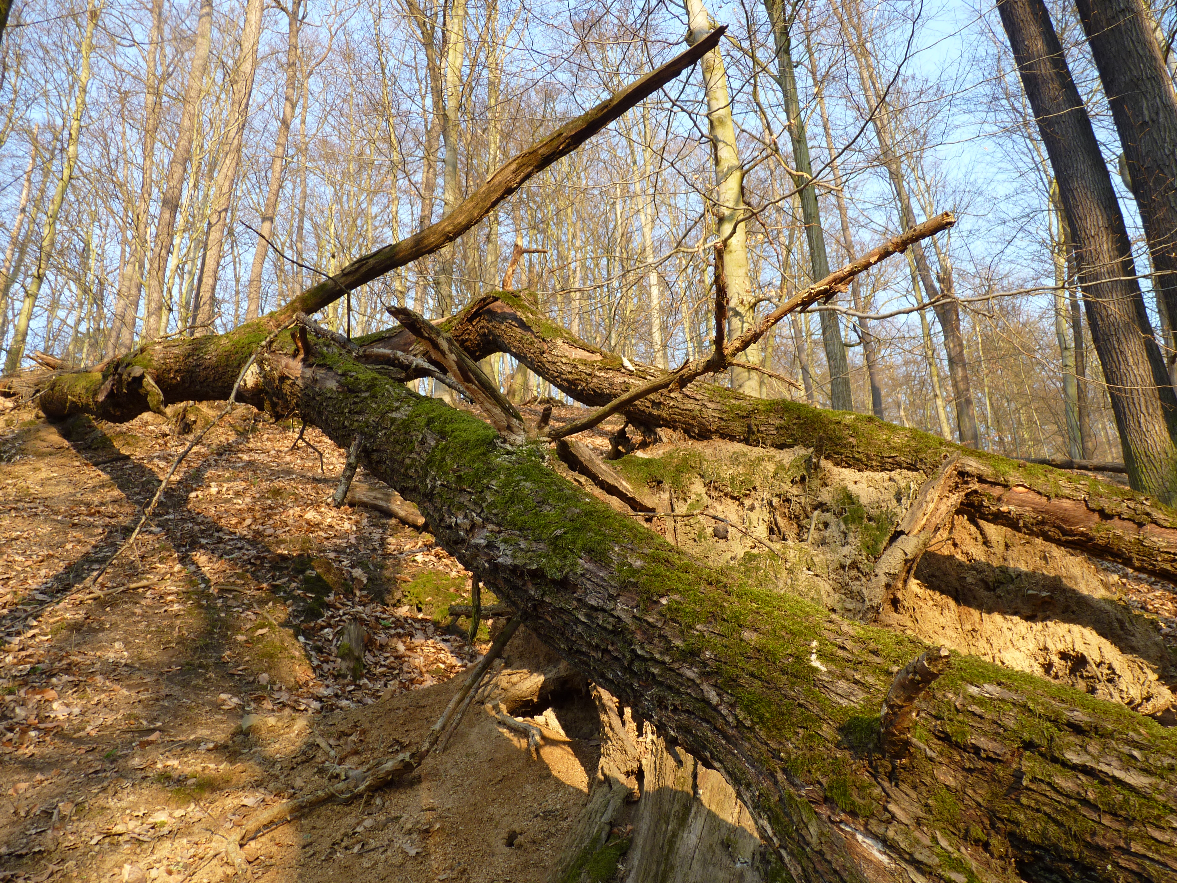 Malužín (nature reserve). Brno-Country District, South Moravian Region, Czech Republic Project: Chráněná území